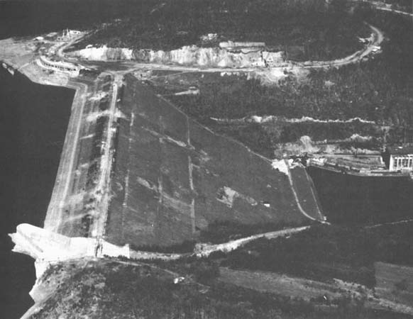 Schwammenauel dam